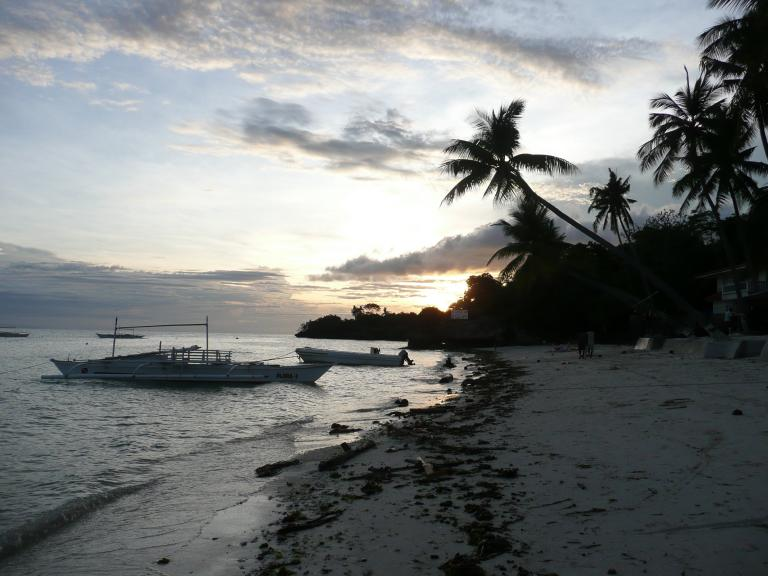 Sunset over Alona beach, Panglao island, Philippines